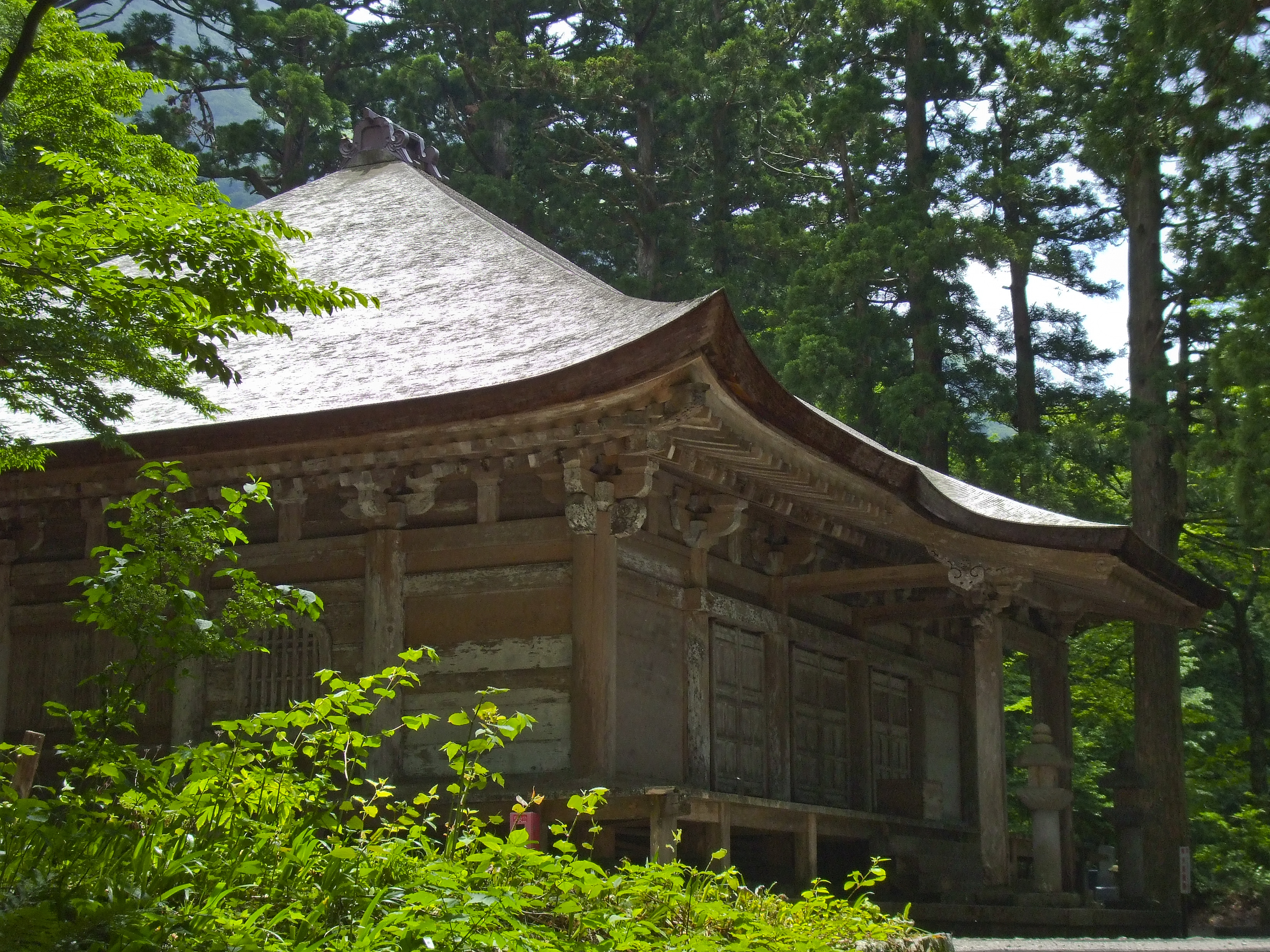 The Amida Building, Daisen-ji Temple, Daisen, Tottori, Japan.